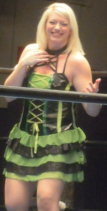 American professional wrestler, Hailey Hatred. Dec 31 2012, Ice Ribbon Korakuen Hall.